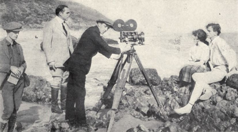 Still from the production of the American silent drama film At the End of the World (1921) with director Penrhyn Stanlaws, Betty Compson, and Milton Sills, on page 63 of Screen Acting. The cameraman may be the film's listed cinematographer Paul Perry (1891–1963).